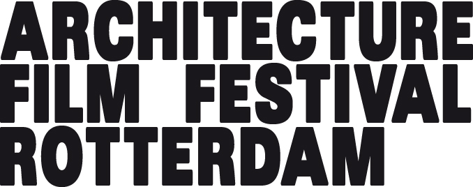 Logo AFFR